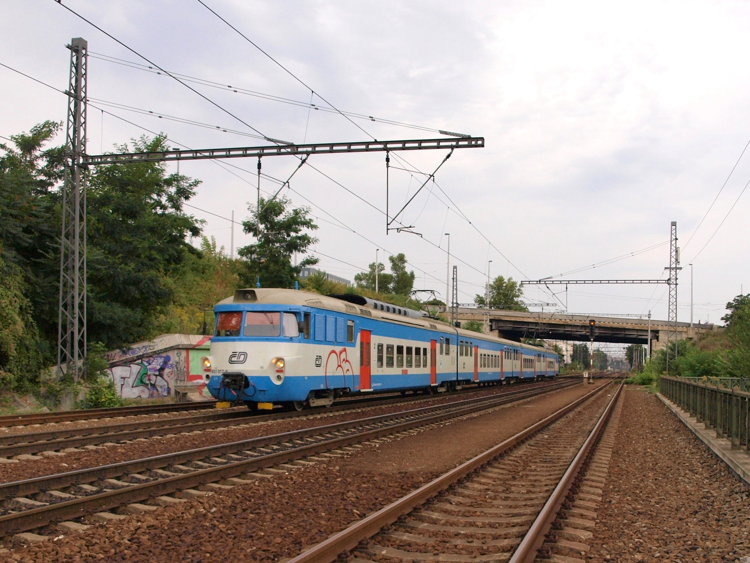 Electric multiple unit 451.017, Smíchovské nádraží in Prague near Lihovar